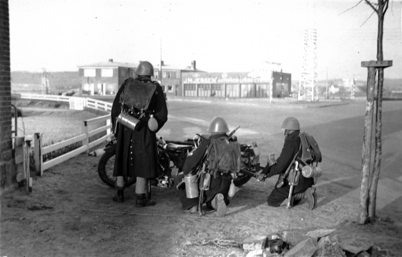 Danish soldiers with a 20 mm Madsen autocannon in a crossroads in Åbenrå, Denmark, April 9, 1940